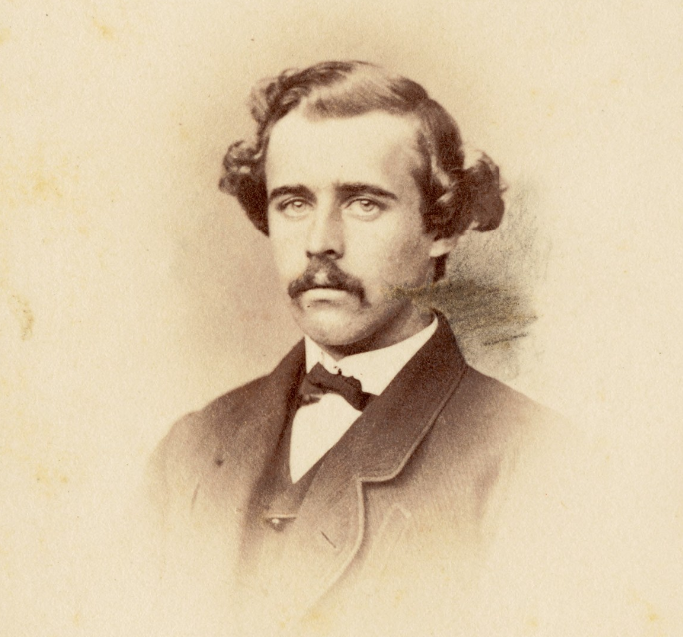 Title: Portrait of a man, head and shoulders only [W.S. - William Colford Schermerhorn] Date: [ca. 1855–1865] Location: Lenox Library Association Notes (acquisition): Gift of Mrs. William H. Hall Preferred Citation: Courtesy of the Lenox Library Association.